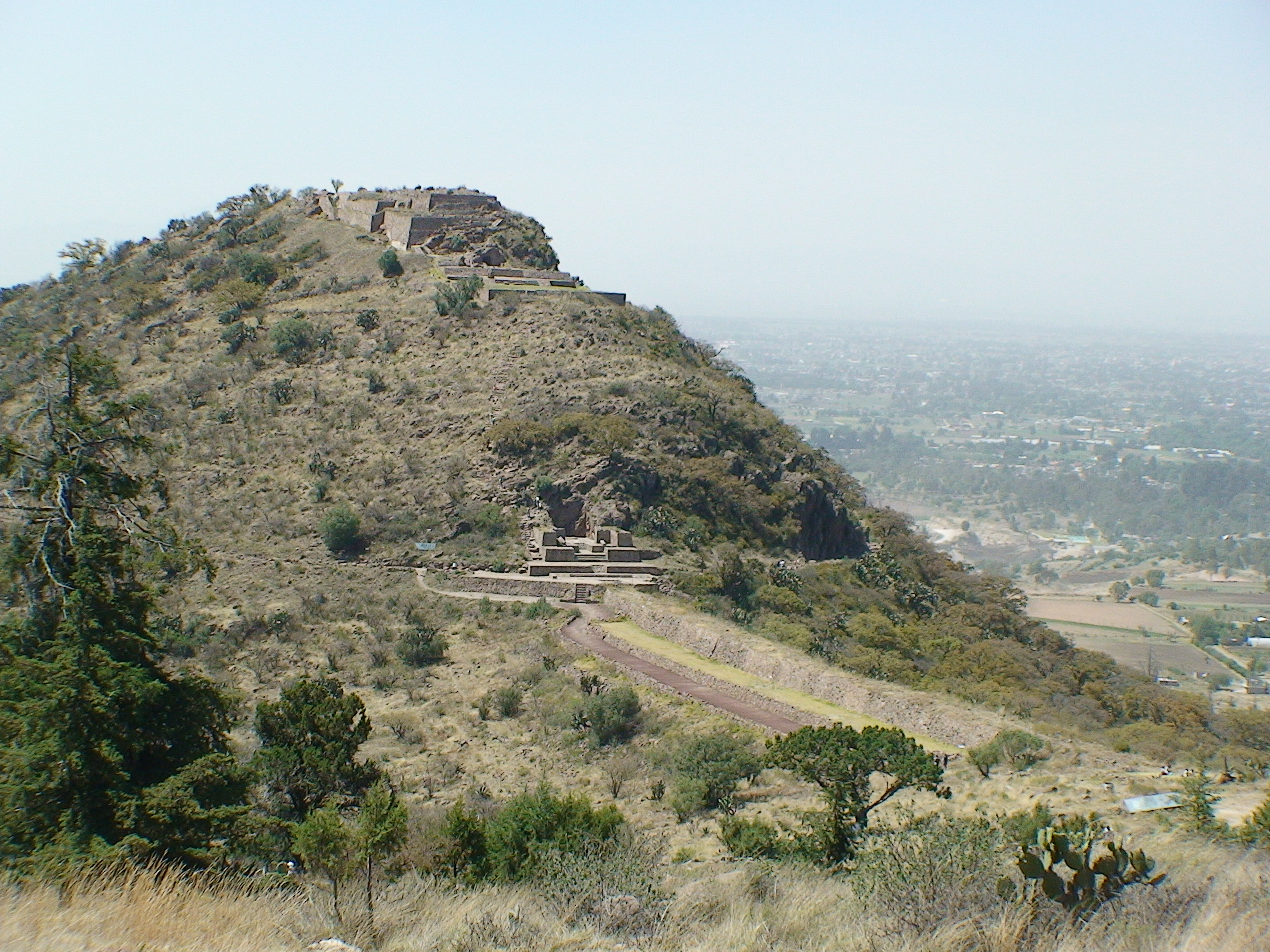 Tetzcotzingo, Edo. de México, Mexico